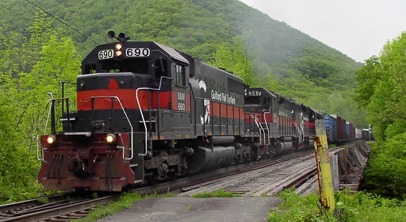 BM 690 Ex ITC 2301 with Train EDRJ about to enter the East portal of the Hoosac Tunnel. Source: William Stone Jr. Date: May 27,2007 Location: Florida,Ma. Author: William Stone Jr.